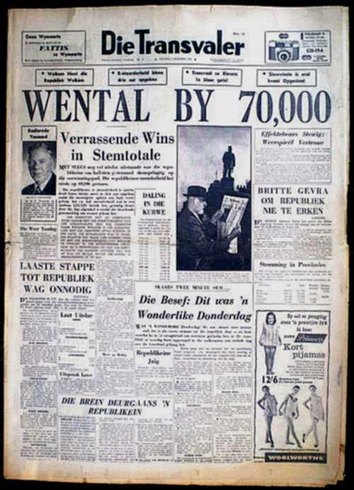 Die Transvaler was a South African Newspaper. This front page announced the results of the 1960 referendum about South Africa becoming a republic